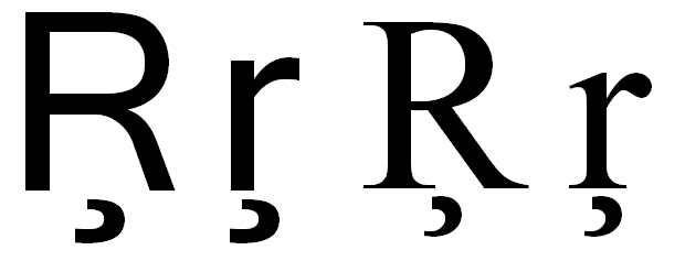 Latin_letter_Ŗŗ.